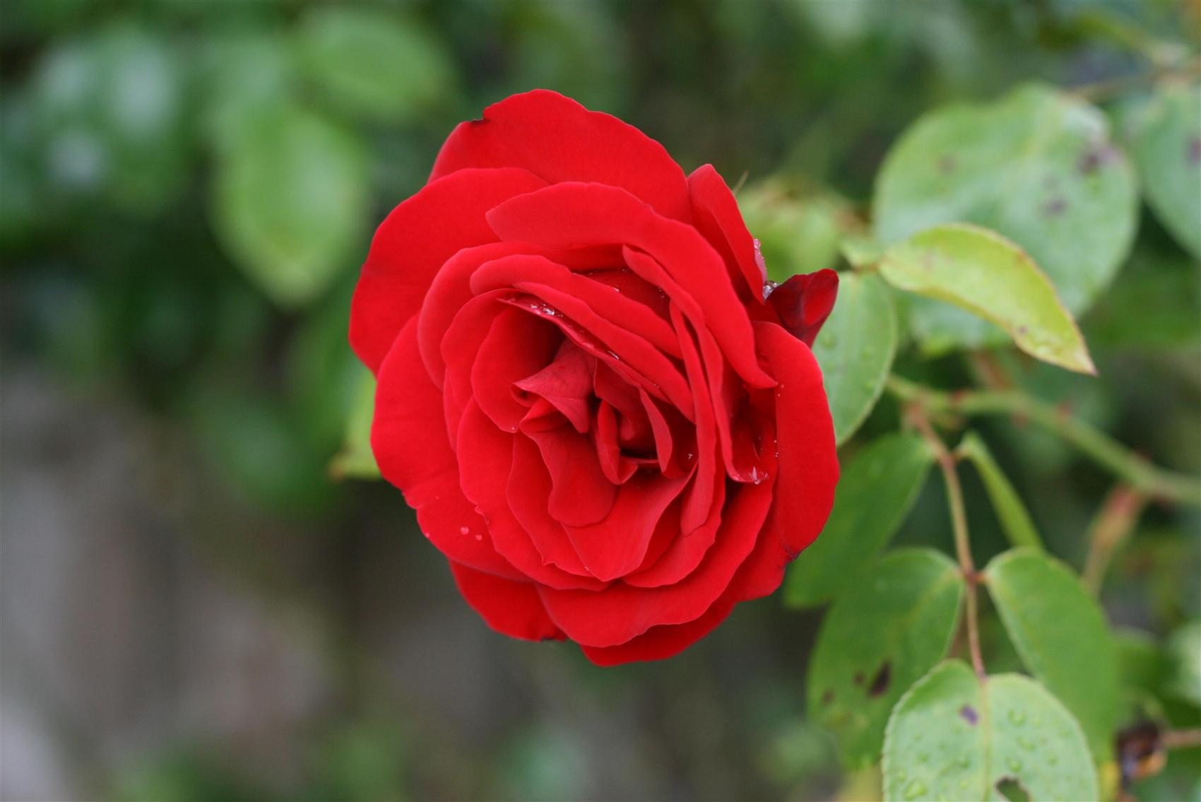 Red Rosa damascena